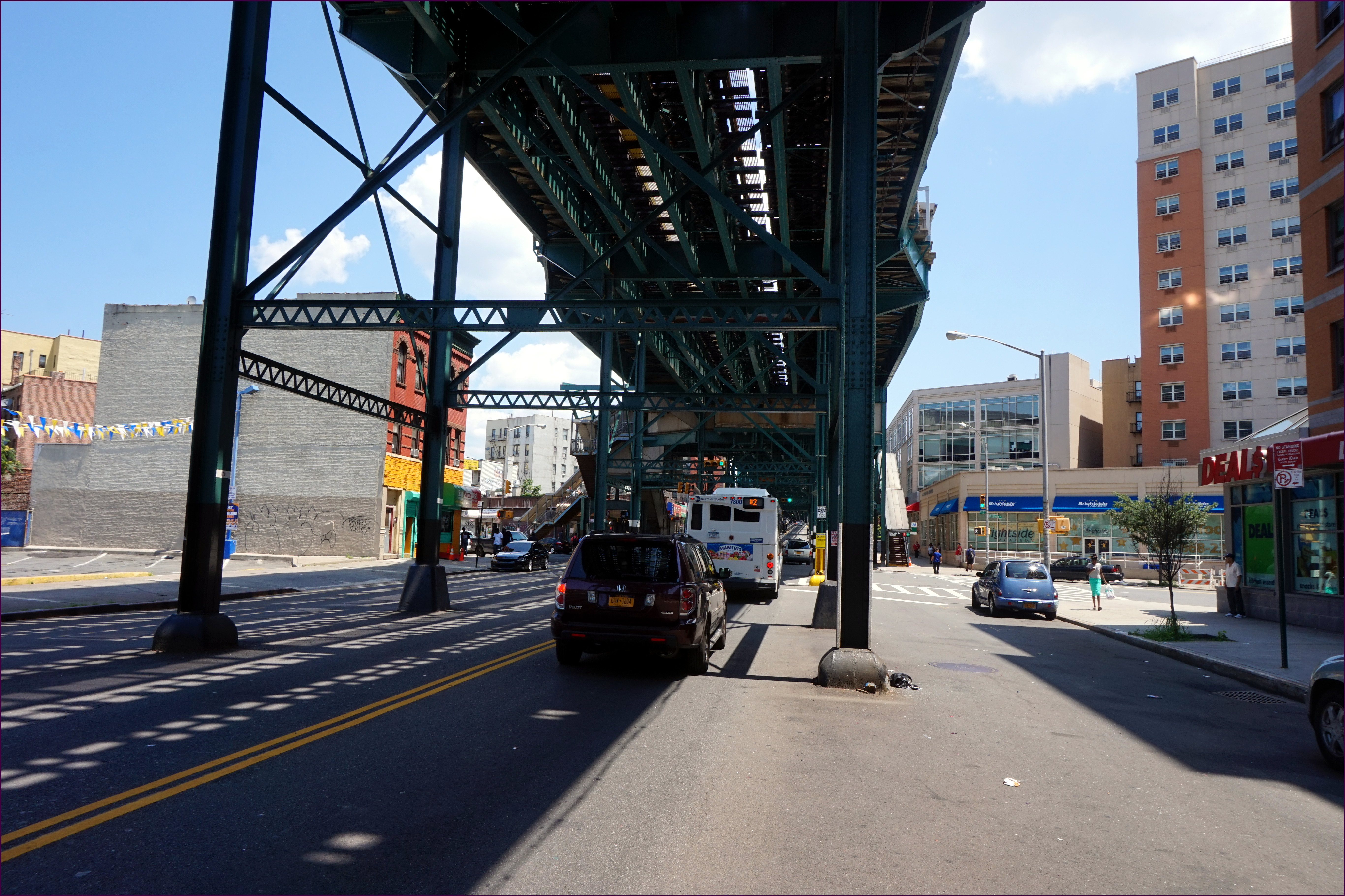 A Trip to NYC's first official Roundabout.